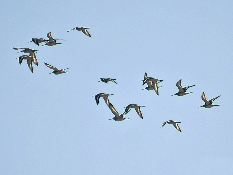 Black-tailed Goodwit Limosa limosa at Chilika, Orissa, India.